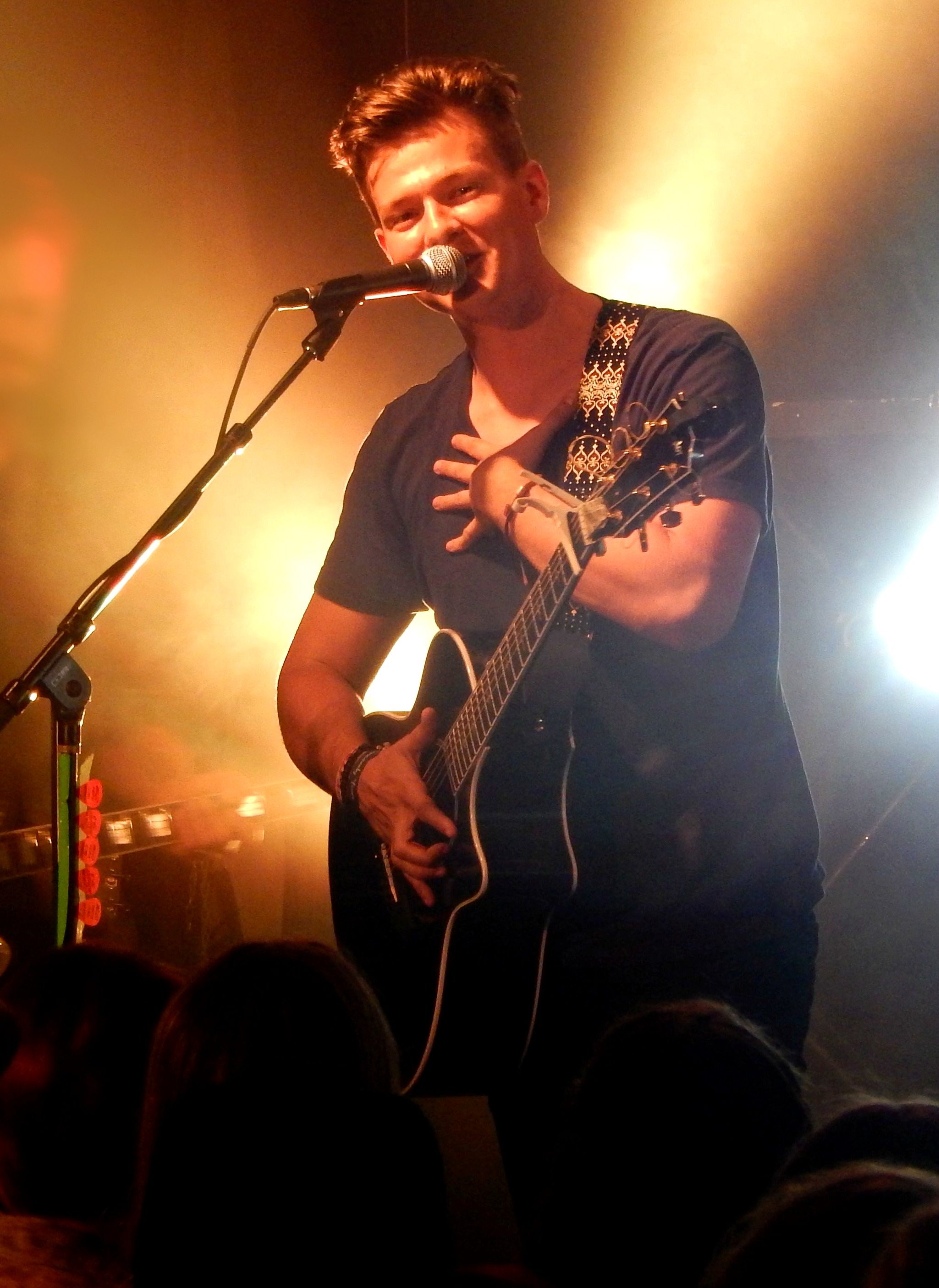 Tyler Ward performing in Dallas, Tx in June 2014